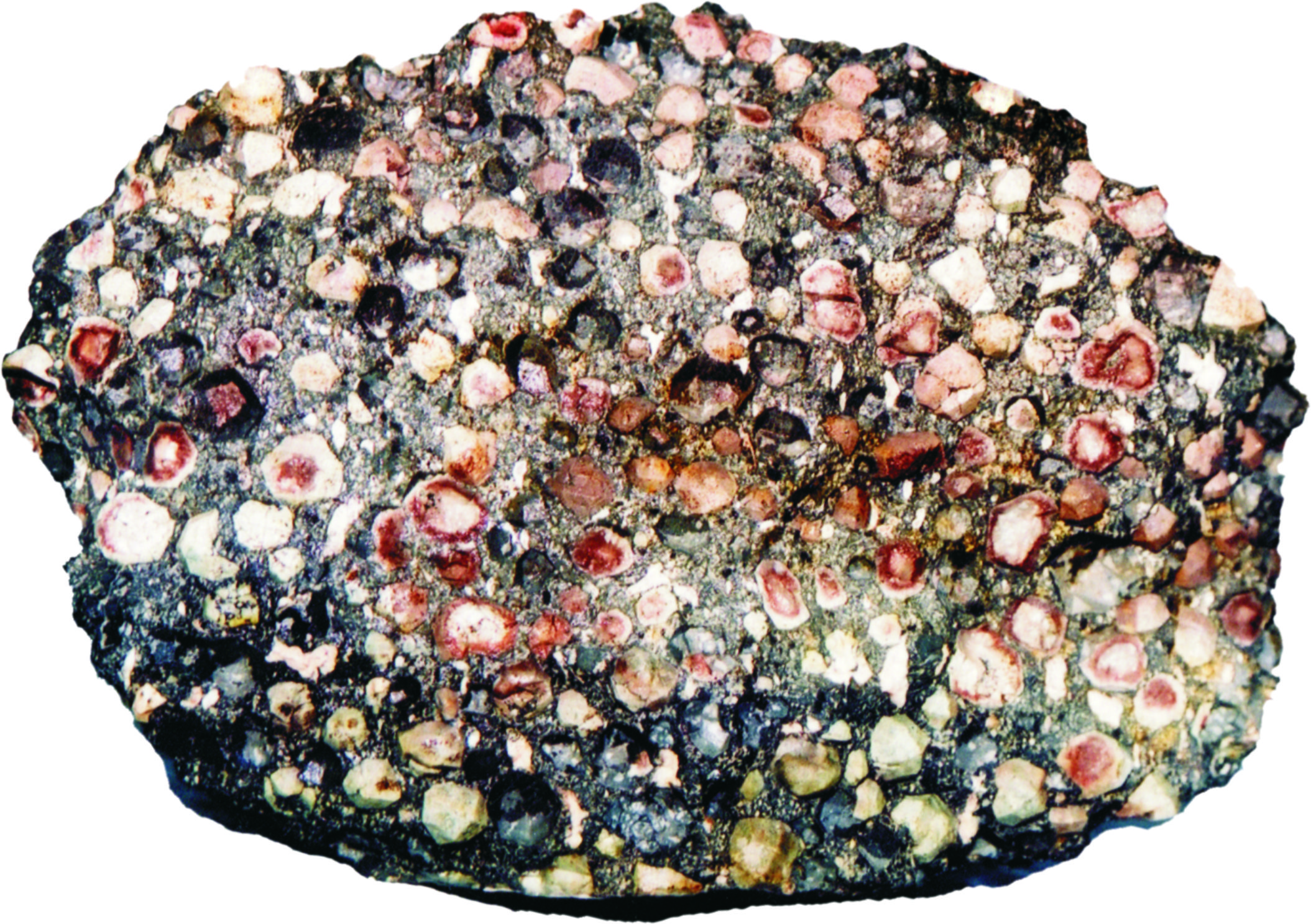 Wairakite, 250 mm, Mauntain Talysh, Azerbaijan